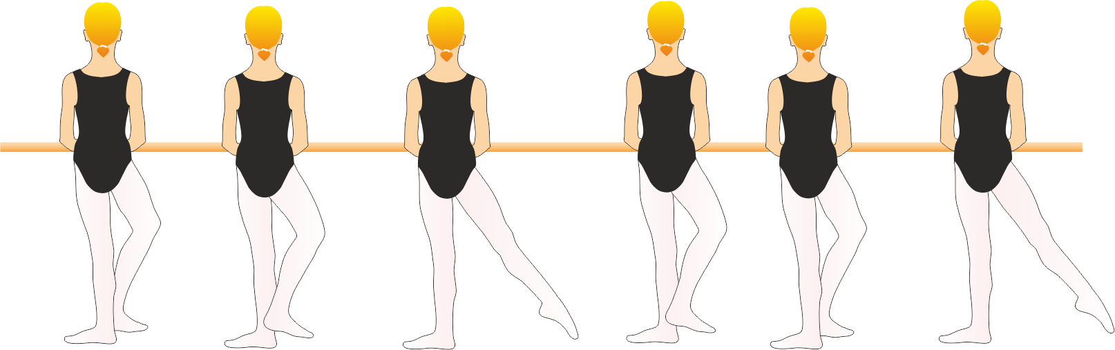 Ballet barre exercises: Frappé (double)